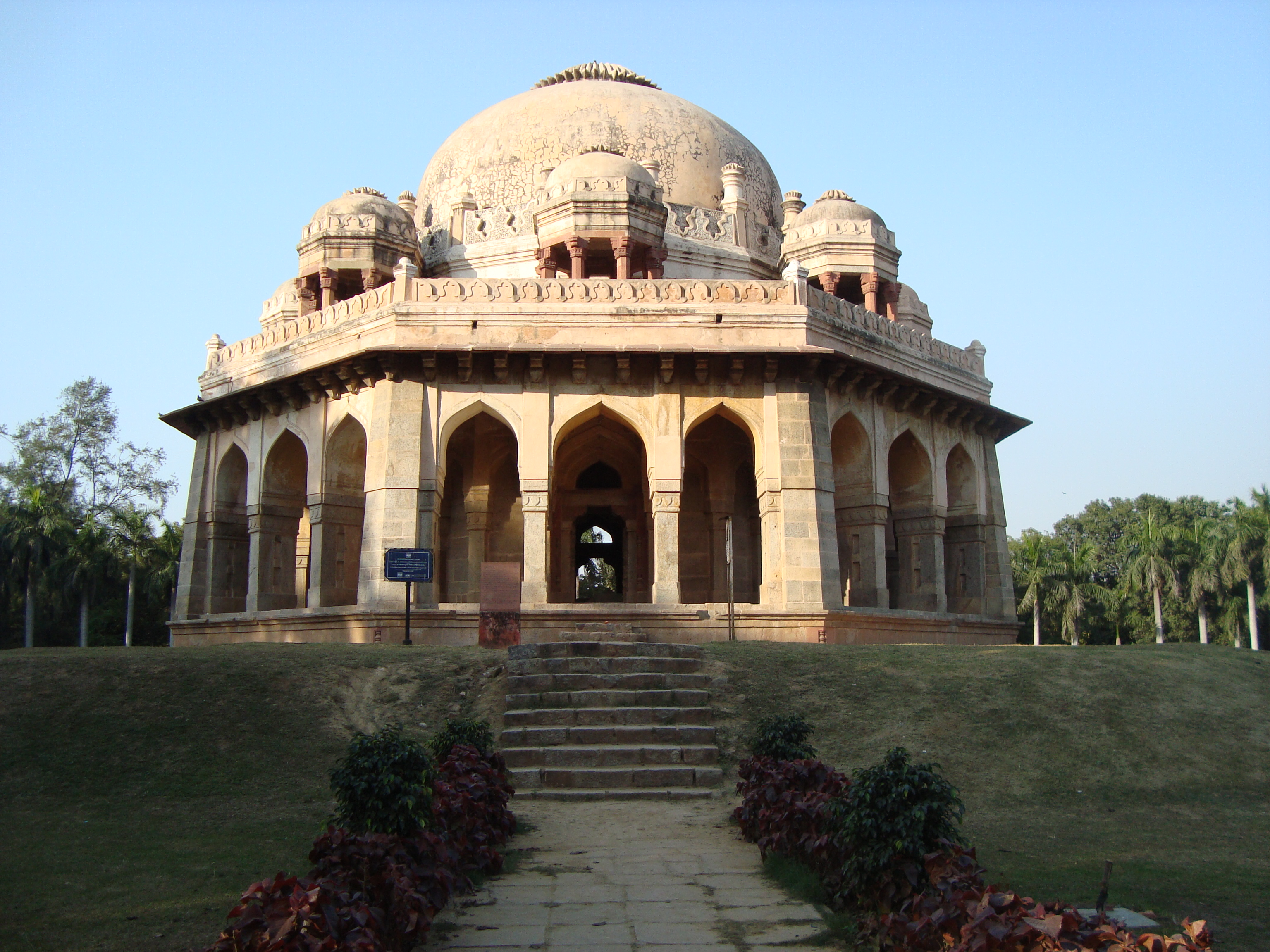 Muhammed Shah's Tomb at Lodhi Gardens, New Delhi, India.